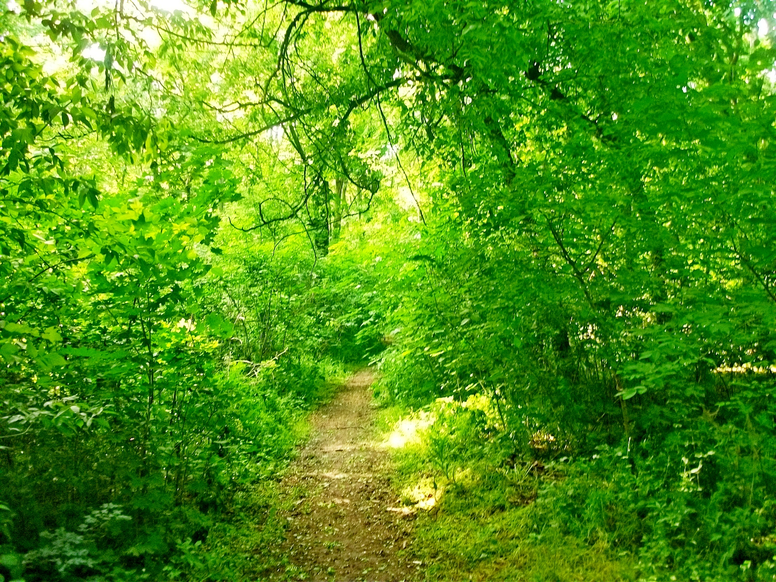 Forest near Zichyújfalu, Hungary.